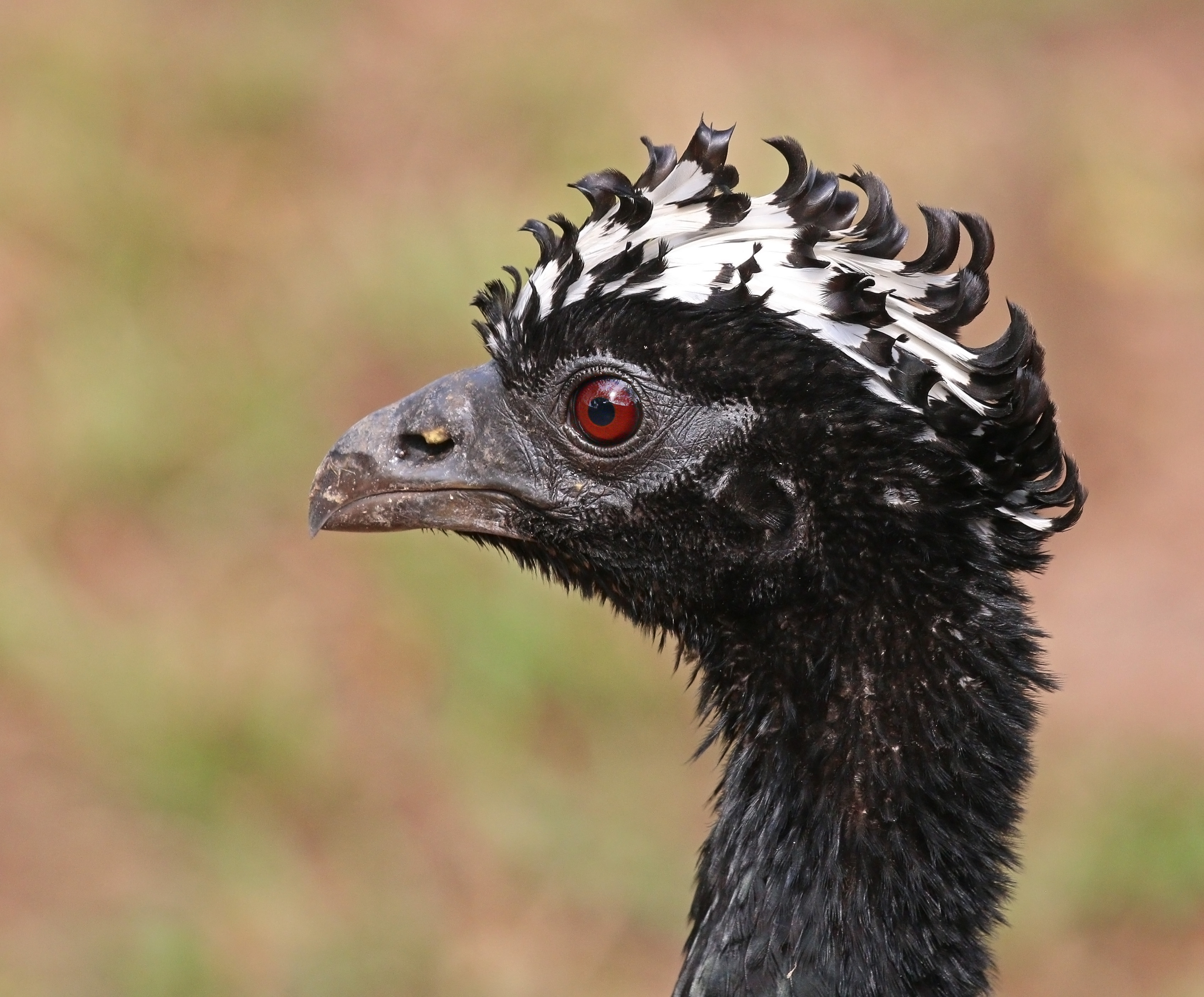 Bare-faced curassow (Crax fasciolata) female, Pantanal, Brazil